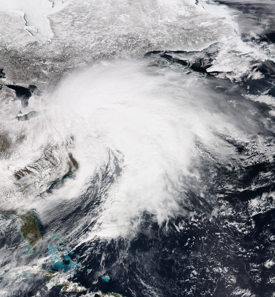 Satellite image taken by Suomi NPP of the nor'easter over the Northeastern United States at 18:30 UTC on March 14, 2017